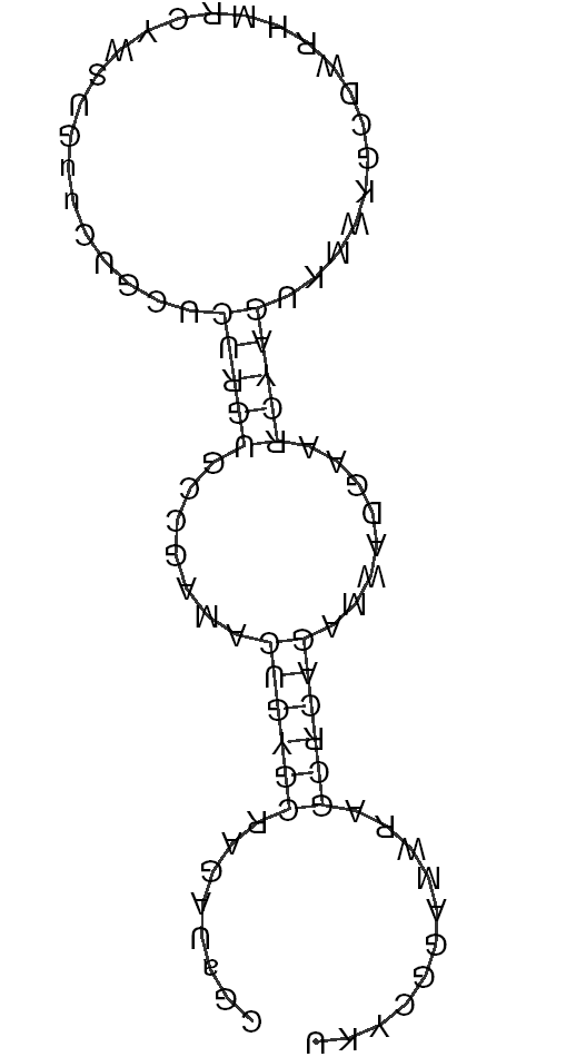 RNA secondary structure of TB9Cs1H1 generated by the WAR server( It is the consensus structure from 8 Trypansomatid species -Leishmania major, Leishmania infantum, Leishmania braziliensis, Trypanosoma brucei, Trypanosoma brucei gambiense, Trypanosoma cruzi, Trypanosoma congolense, Trypansoma vivax --with some manual editing and redrawing of the structure with RNAplot from the Vienna RNA package